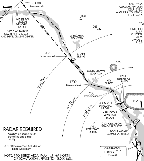 FAA plate of the River Visual approach to Washington National Airport.